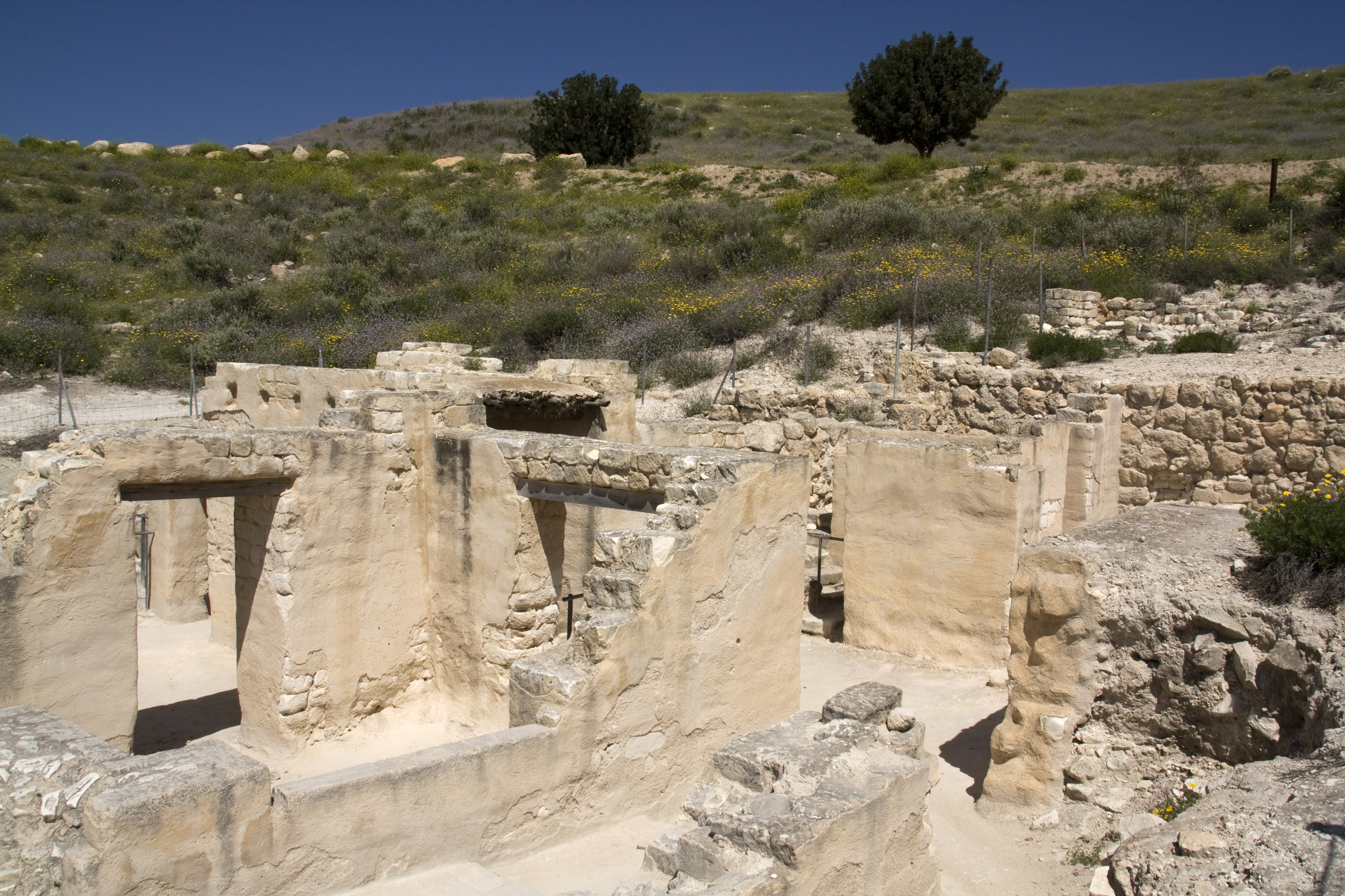 Beit Guvrin National Park.